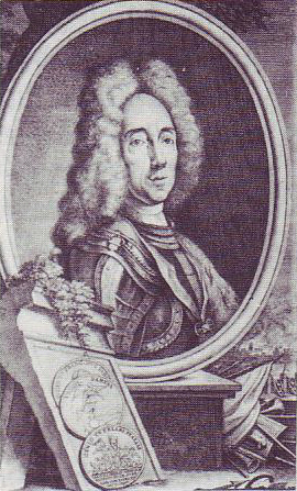 Portrait of the Prince Eugene of Savoy (1663-1736) by Franc M. Francia after an unknown painting by Andreas Toresanus, Vienna. Copperplate engraving of the title page of the fourth volume of the “Rerum Italicarum Scriptores” by Ludivico Antonio Muratori, 39 x 48,5 cm.